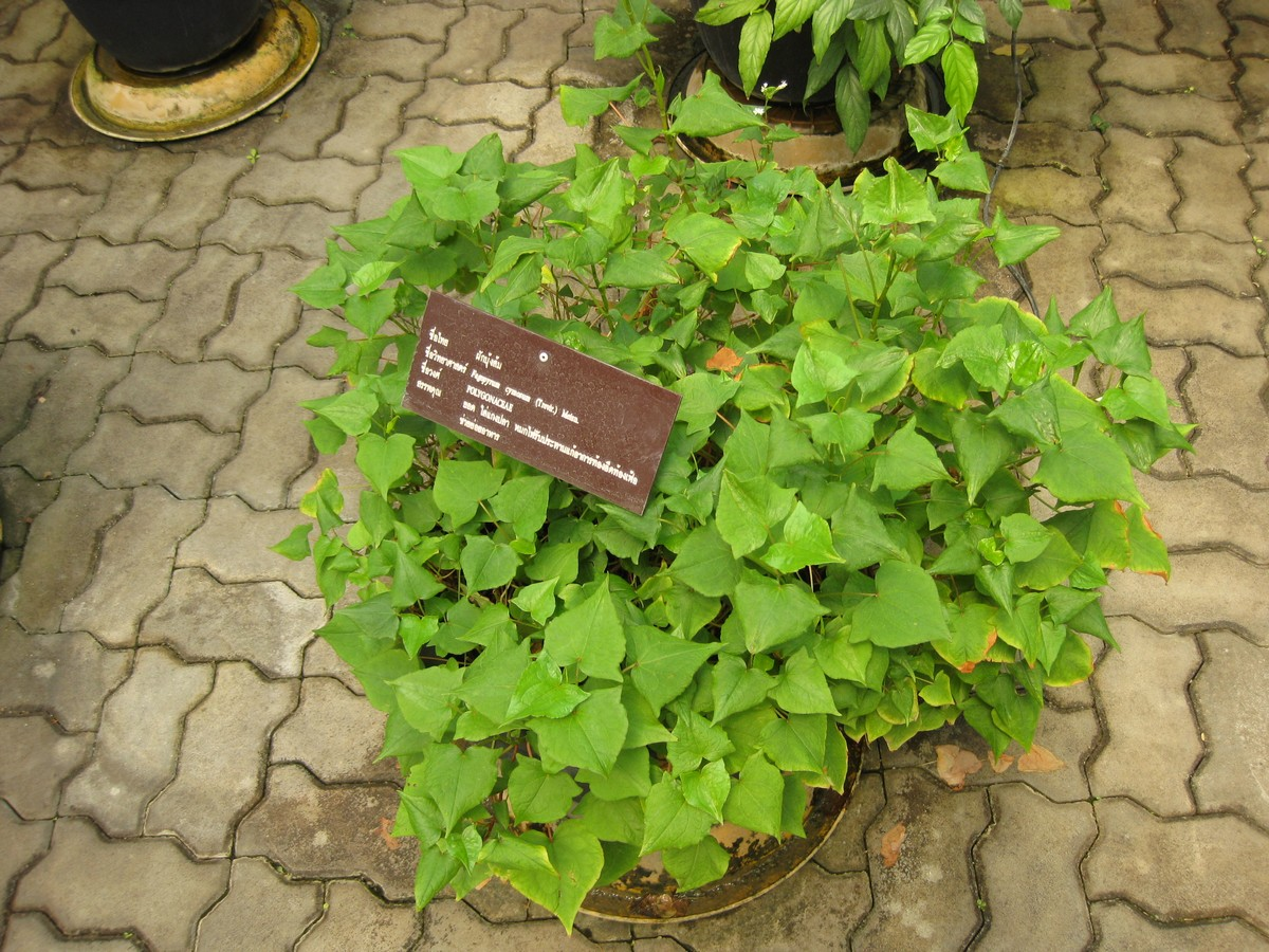 Fagopyrum cymosum (Trevir.) Meisn. Photographed at the Queen Sirikit Botanic Garden (Chiang Mai Province, Thailand) in March